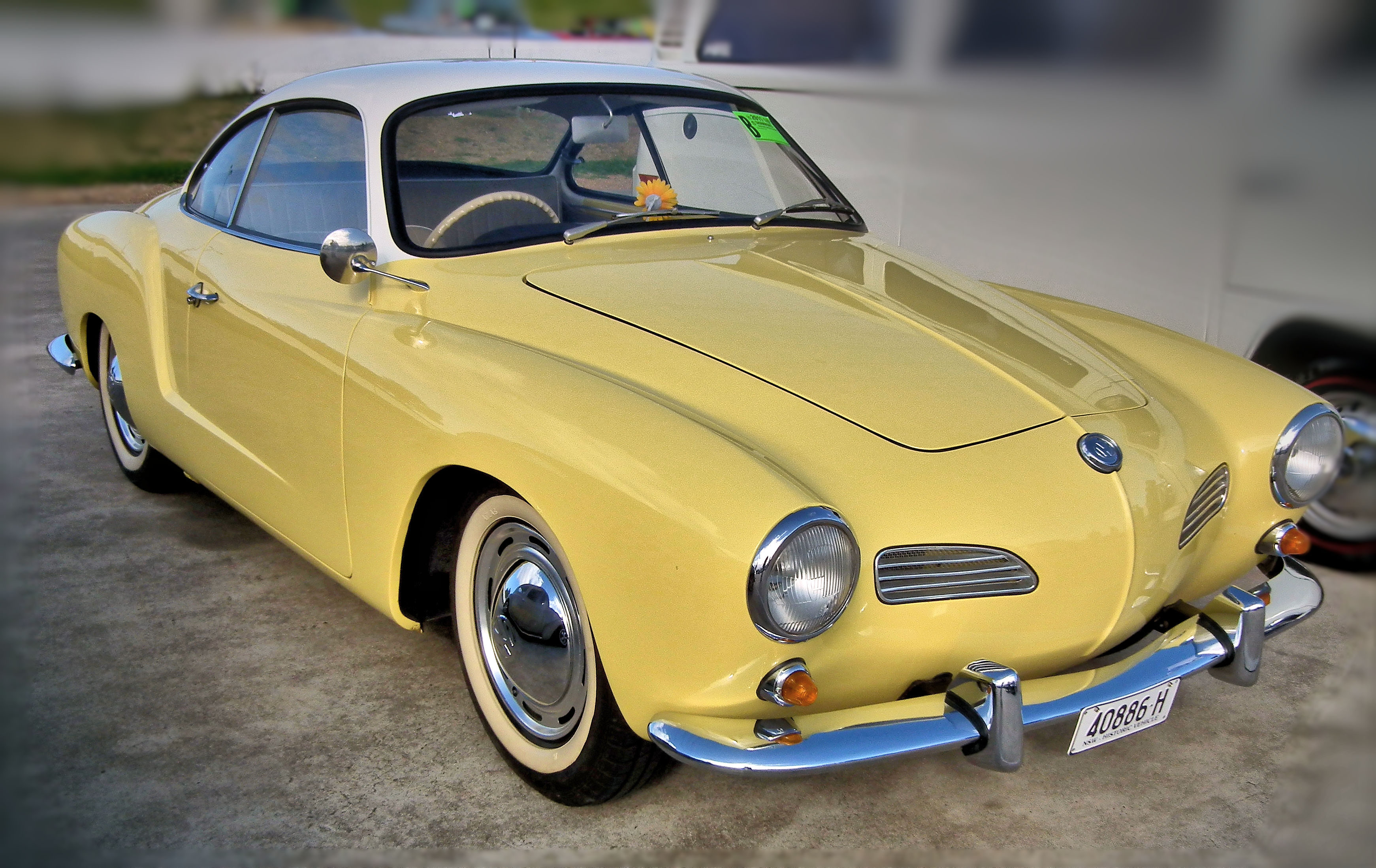 Volkswagen Karmann-Ghia Type 14 coupe. Taken at Shannon's Eastern Creek Classic 2011, held at Eastern Creek Raceway Sydney.